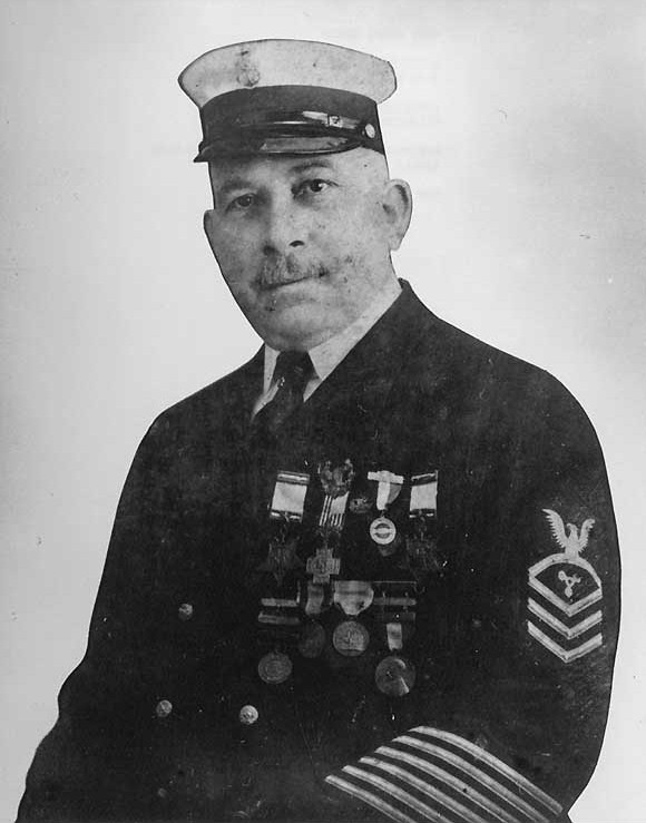 Photo #: NH 105348 Chief Water Tender John King, USN John King was twice awarded the Medal of Honor, in both cases for "heroism in the line of his profession" during boiler accidents. The first was on board USS Vicksburg (Gunboat # 11) on 29 May 1901, and the second was on board USS Salem (Scout Cruiser # 3) on 13 September 1909. The Medal of Honor is on the left in the top row of medals worn by Chief Watertender King in this portrait photograph, which was probably taken soon after the First World War. Courtesy of the King Family. U.S. Naval History and Heritage Command Photograph.